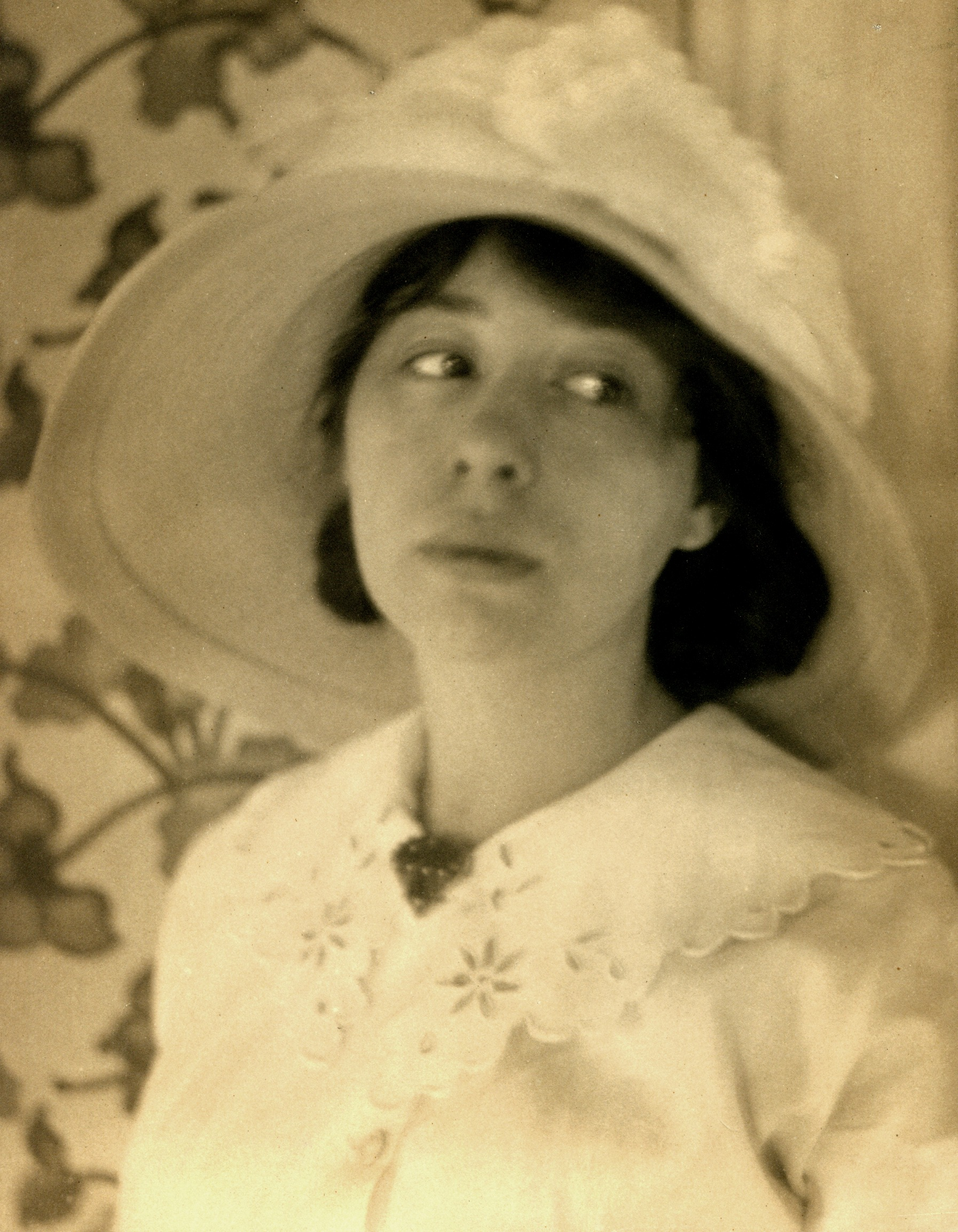 Title: Zoe Akins.